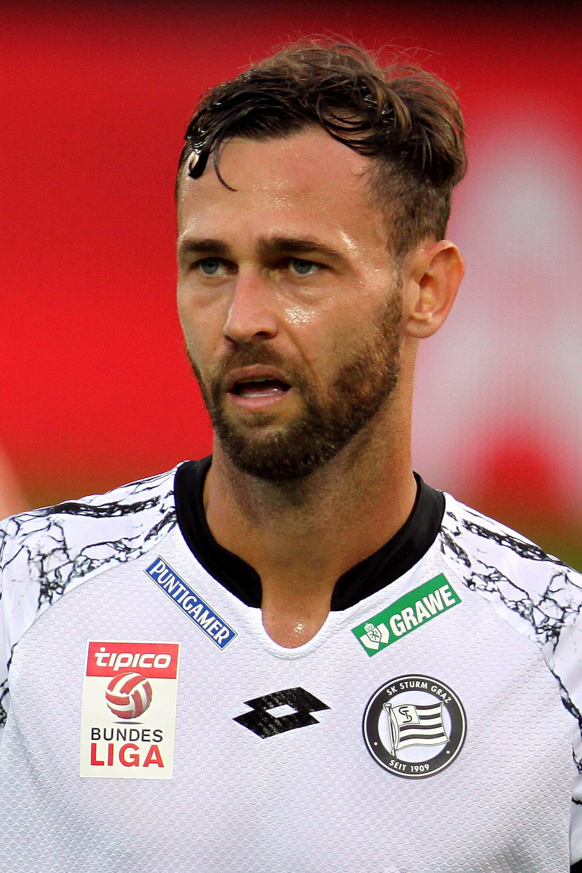 Match of the Austrian Football Bundesliga – SV Mattersburg (green shirts) vs. SK Sturm Graz (white shirts) on 2015-09-13 in Pappelstadion, Mattersburg – The photo shows Michael Madl